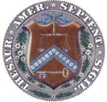 Old version of the seal of the United States Department of the Treasury, prior to the design being simplified in 1968. According to Treasury records, the original seal was probably designed in 1778 by Francis Hopkinson for the Board of Treasury during the period of the Articles of Confederation, meaning the seal predates the Federal Government and the Department of the Treasury itself. The earliest documented usage of the seal was in 1782. The Treasury seal has been printed on U.S. paper currency since 1862. The Latin inscription is an abbreviation for the phrase Thesauri Americae Septentrionalis Sigillum, which means "The Seal of the Treasury of North America." The arms depicts balancing scales (to represent justice), a key (the emblem of official authority) and a chevron with thirteen stars (to represent the original states). The design of the seal was simplified in 1968; the major elements remained but the Latin inscription was replaced by "Department of the Treasury", and the year of the Department of the Treasury's creation (1789) was added to the bottom. Paper money started using the new design with the 1969 series of bills. For more information, see here, here, and here.